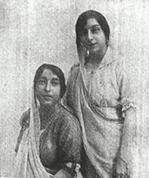 Mother and daughter, Herabai and Mithan Tata who presented the demands for women's suffrage in India to the Joint Select Committee of the House of Lords and Commons, which was reviewing the report of the Southborough Franchise Committee.